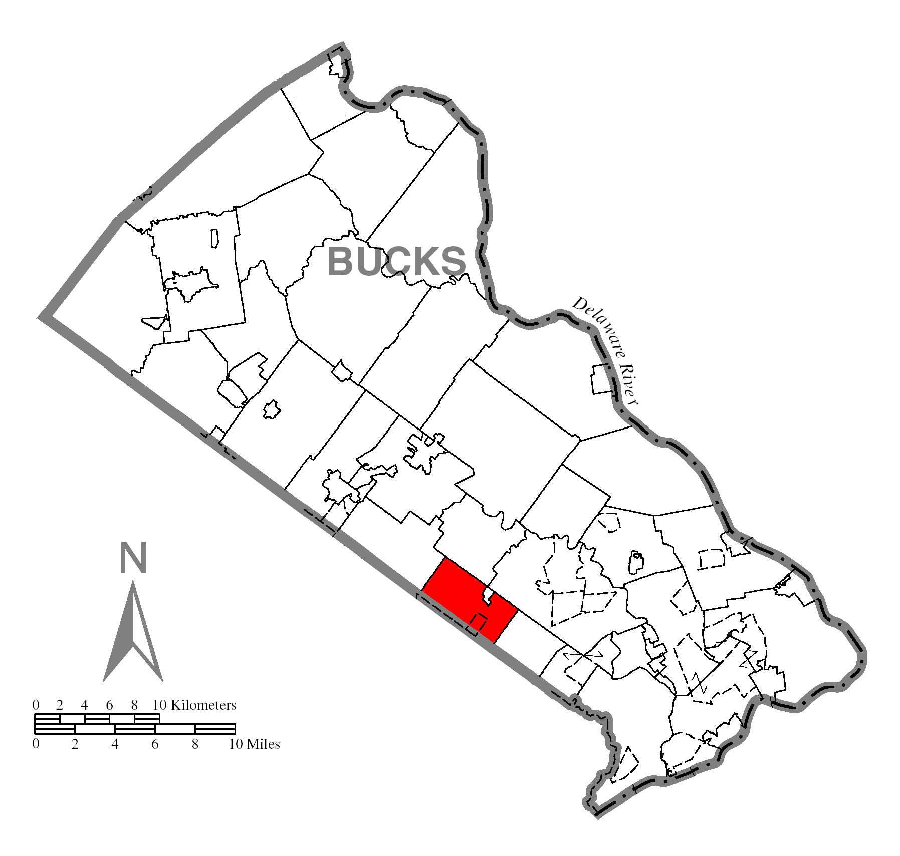 A map of Bucks County showing Warminster Township, Pennsylvania (alternate) highlighted on the map.